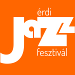 Érdi Jazz Fesztival logo